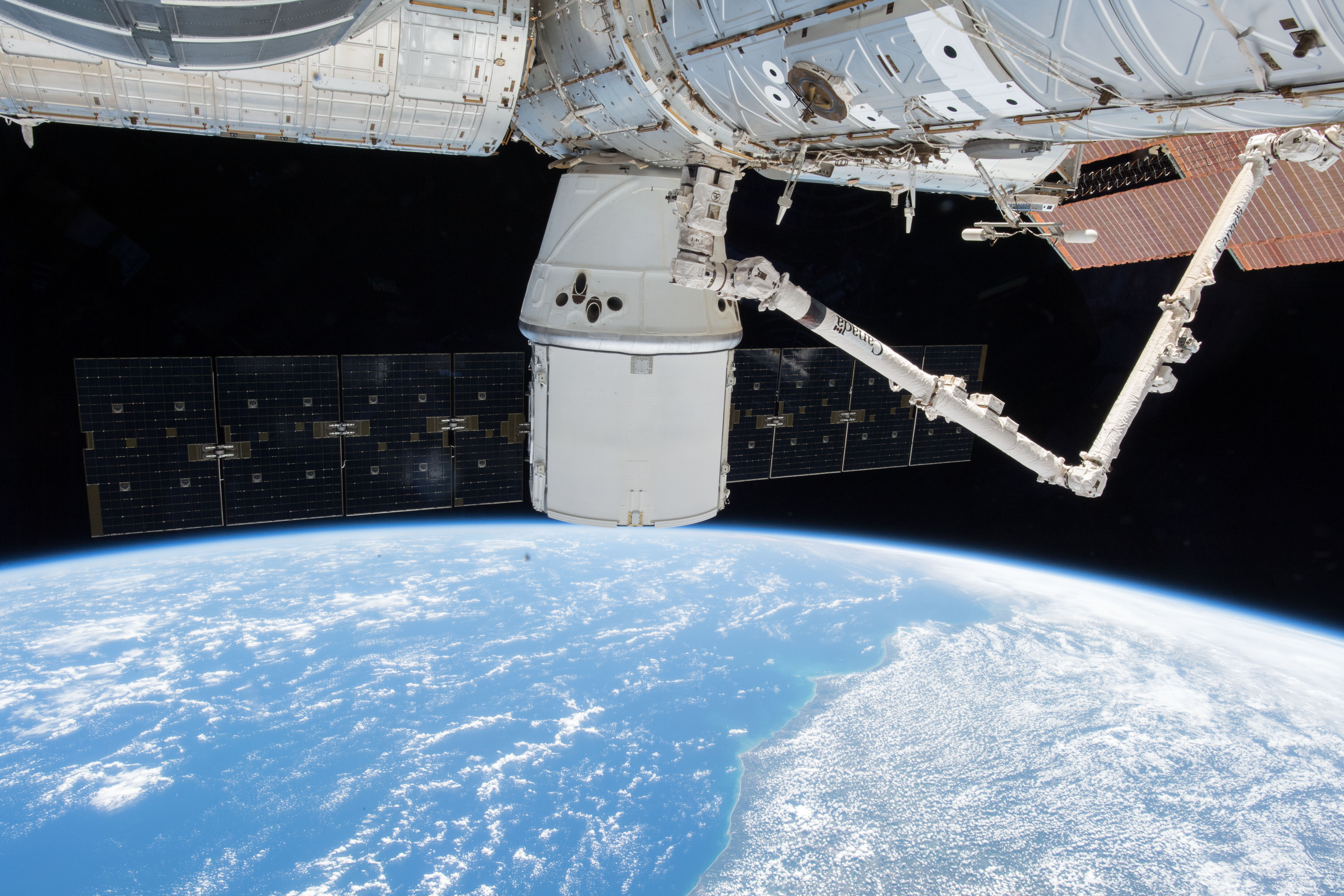 The SpaceX Dragon resupply ship with its dual outstreched solar arrays is pictured attached to the Harmony module as the International Space Station orbited above Brazil.